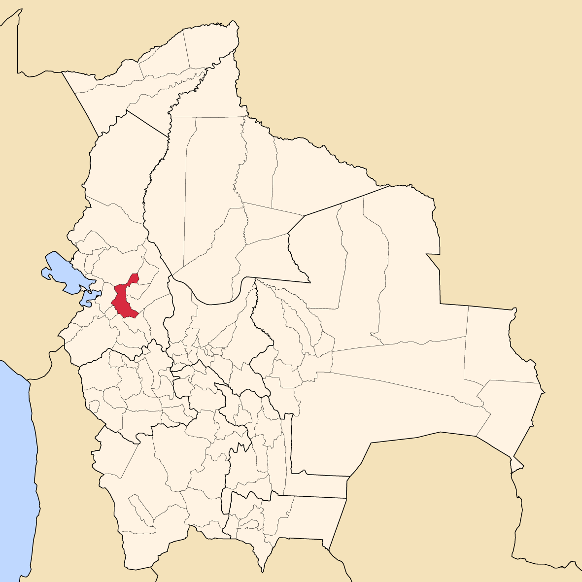 Map of Bolivia showing Pedro Domingo Murillo province, La Paz